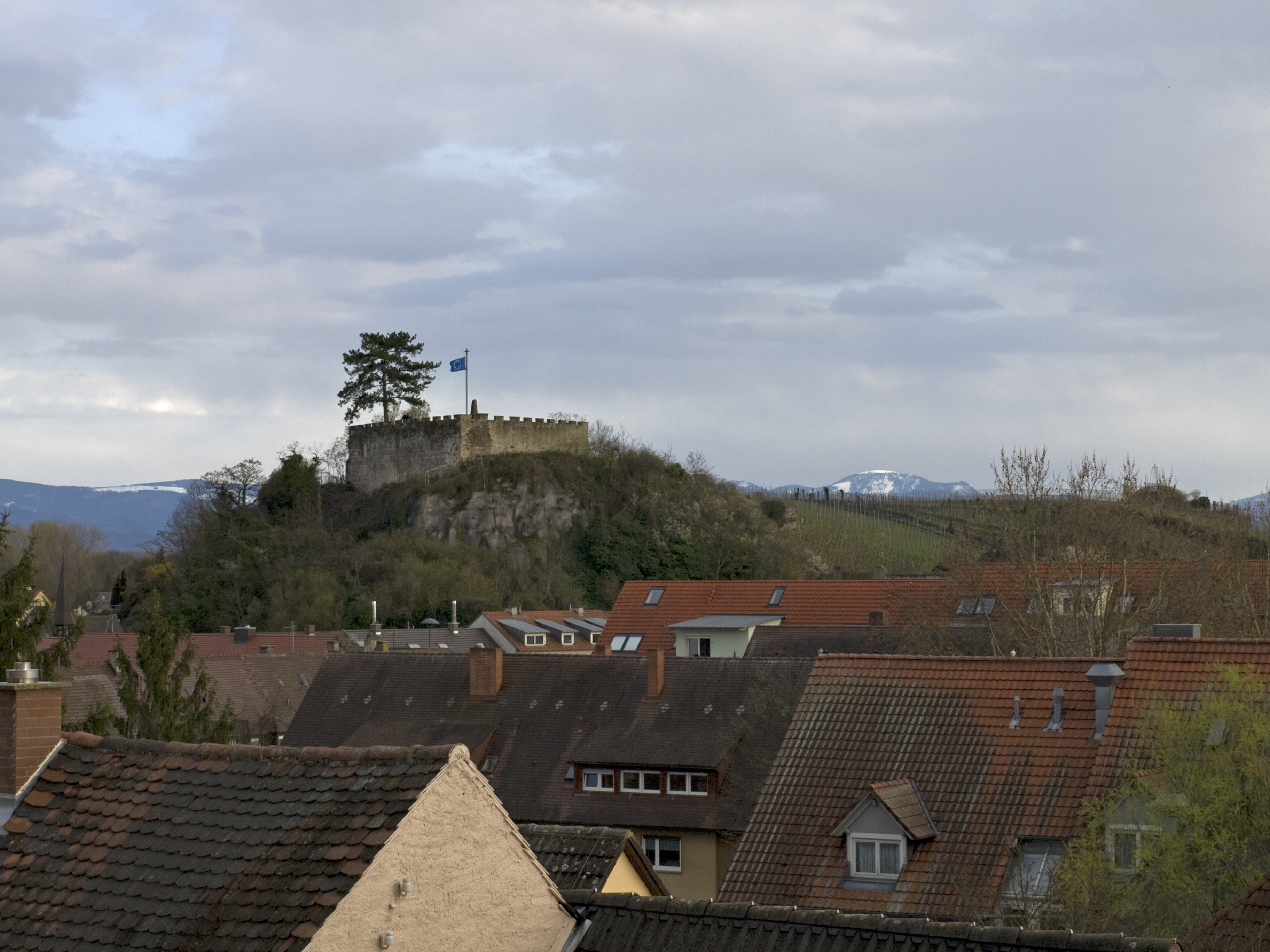 Eckartsberg in Breisach, view from Kaisersberg